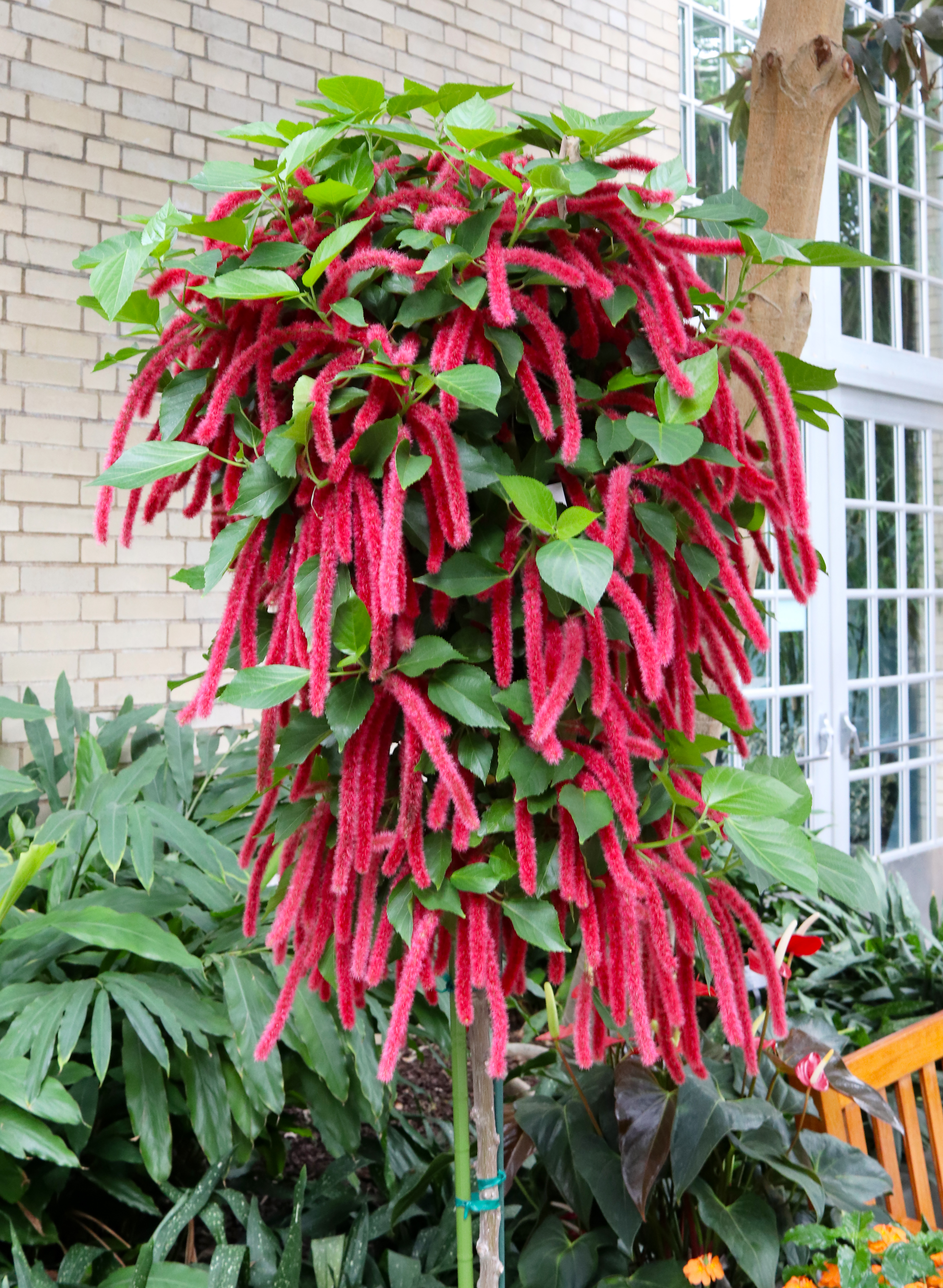 Chenille plant (Acalypha hispida) at the United States Botanic Garden in Washington D.C. on October 6, 2018. Identified by sign.